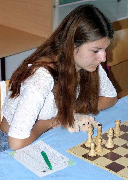 Ana Srebrnič, Slovene chess player, Woman Grandmaster